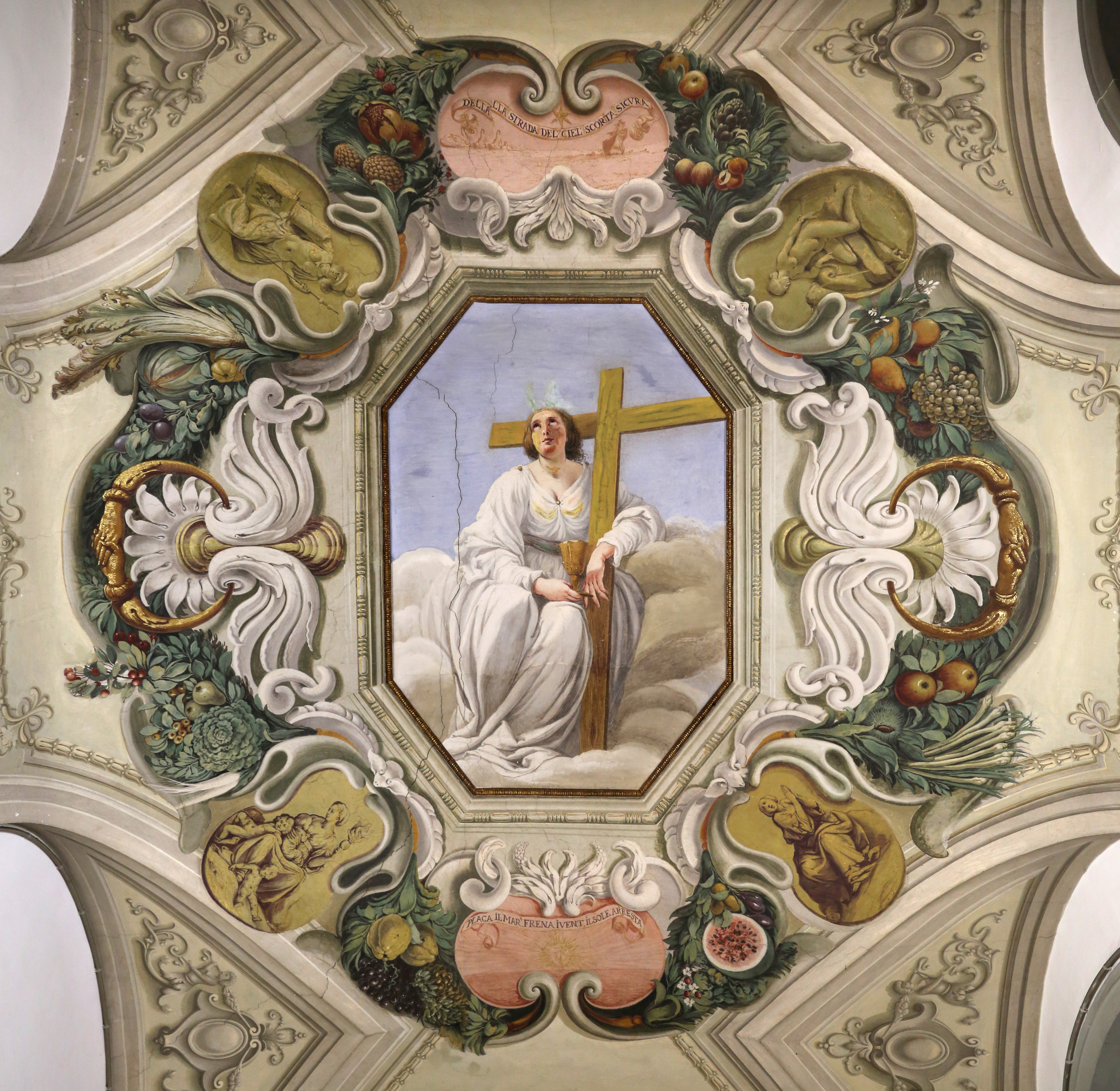 Faith by Baccio del Bianco